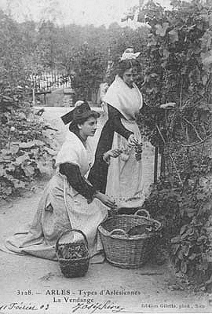 Vintage in Arles.